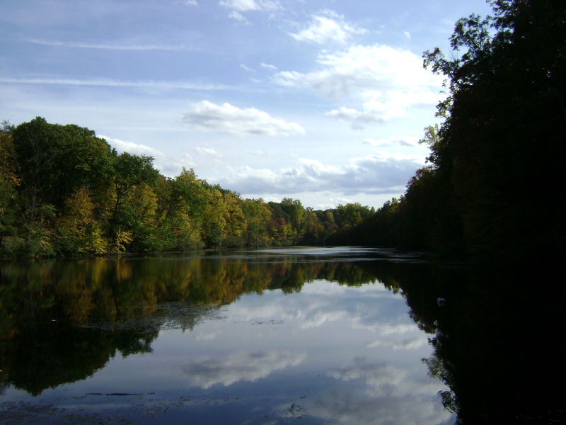 Fyke Pond, seen in Campgaw Mountain Reservation on October 11, 2009.